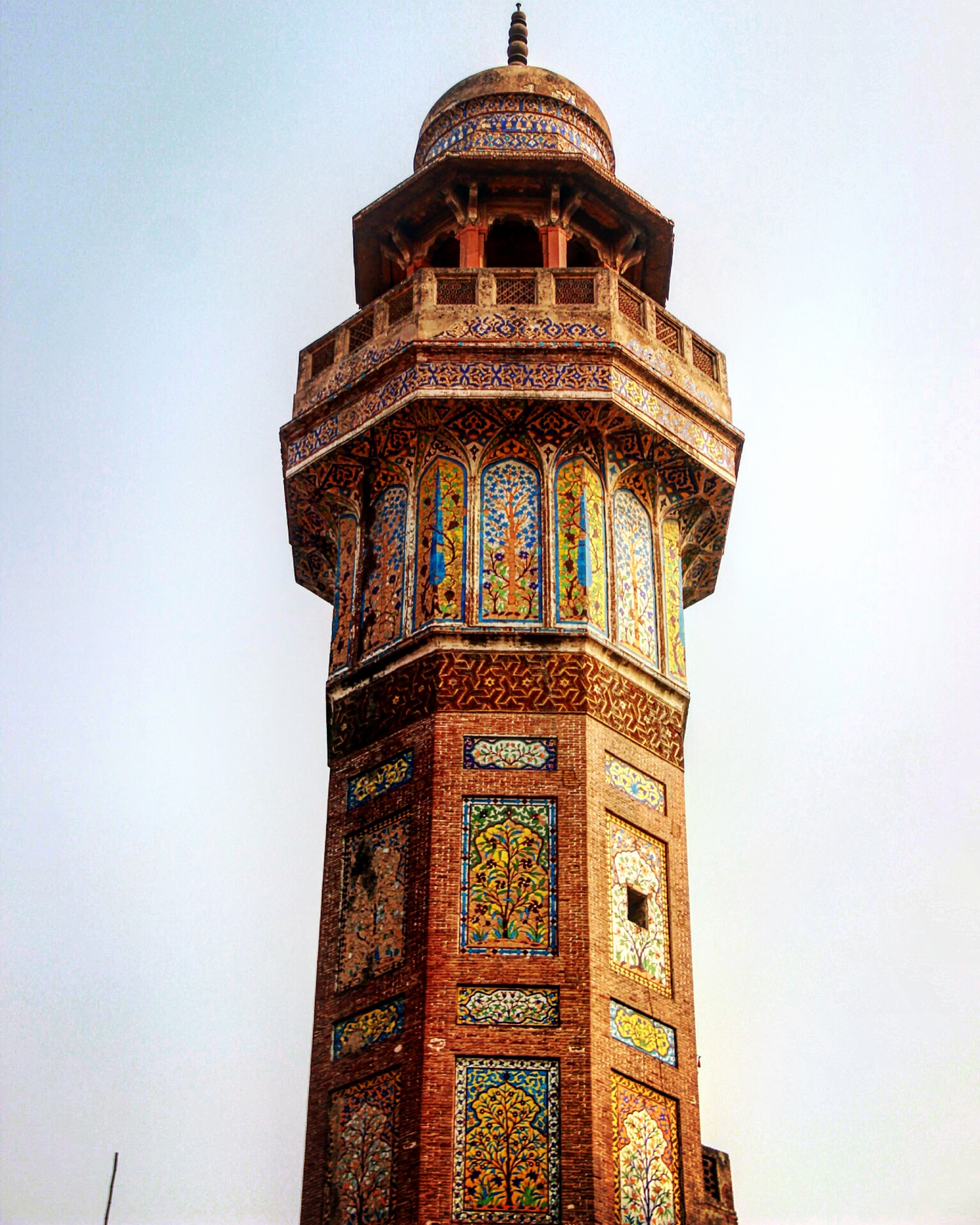 Wazir Khan Mosque This is a photo of a monument in Pakistan identified as the PB-100